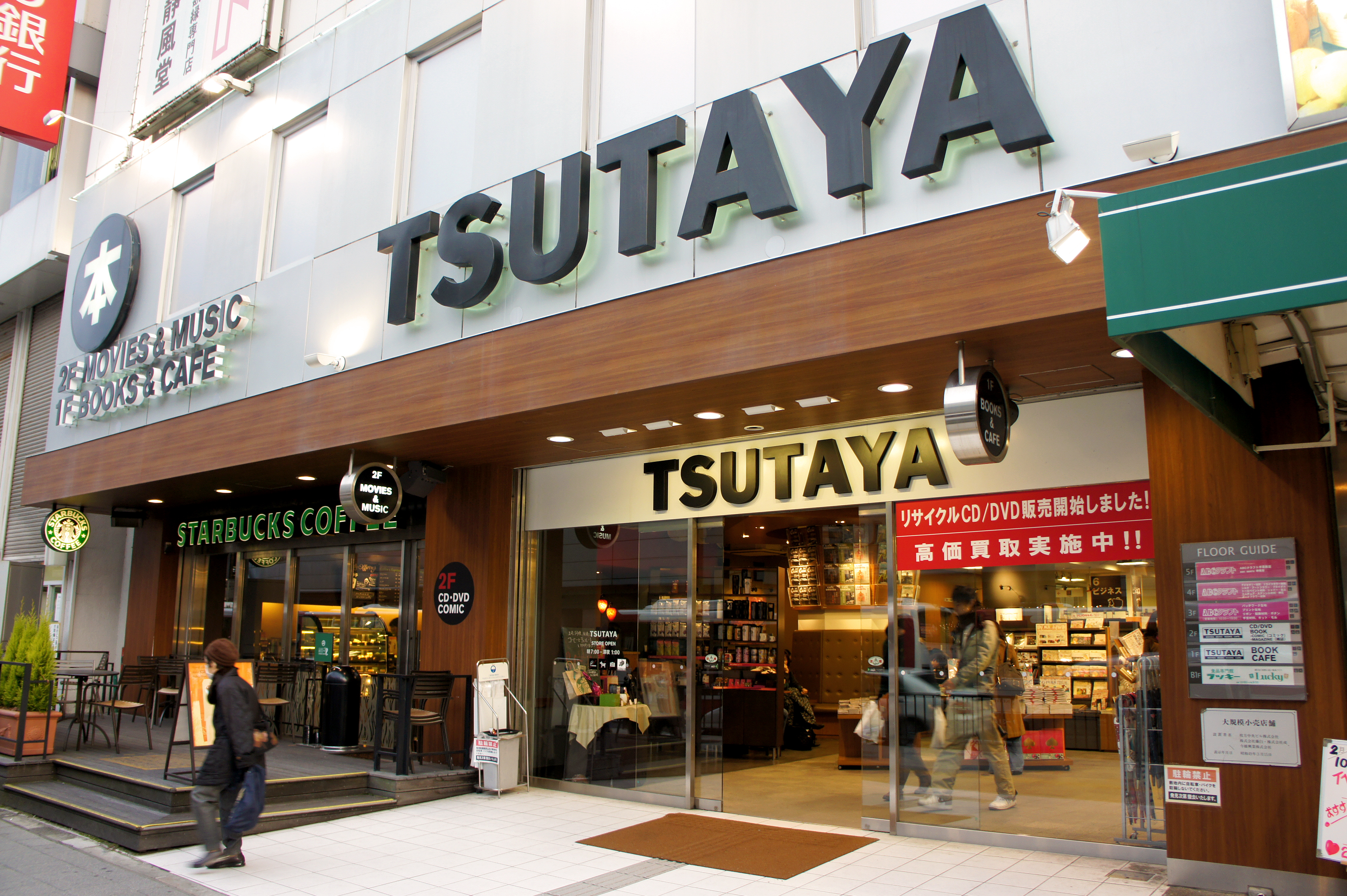 TSUTAYA Hirakata Ekimae Honten, 18-20 Okahigashicho Hirakata-City Osaka Japan.